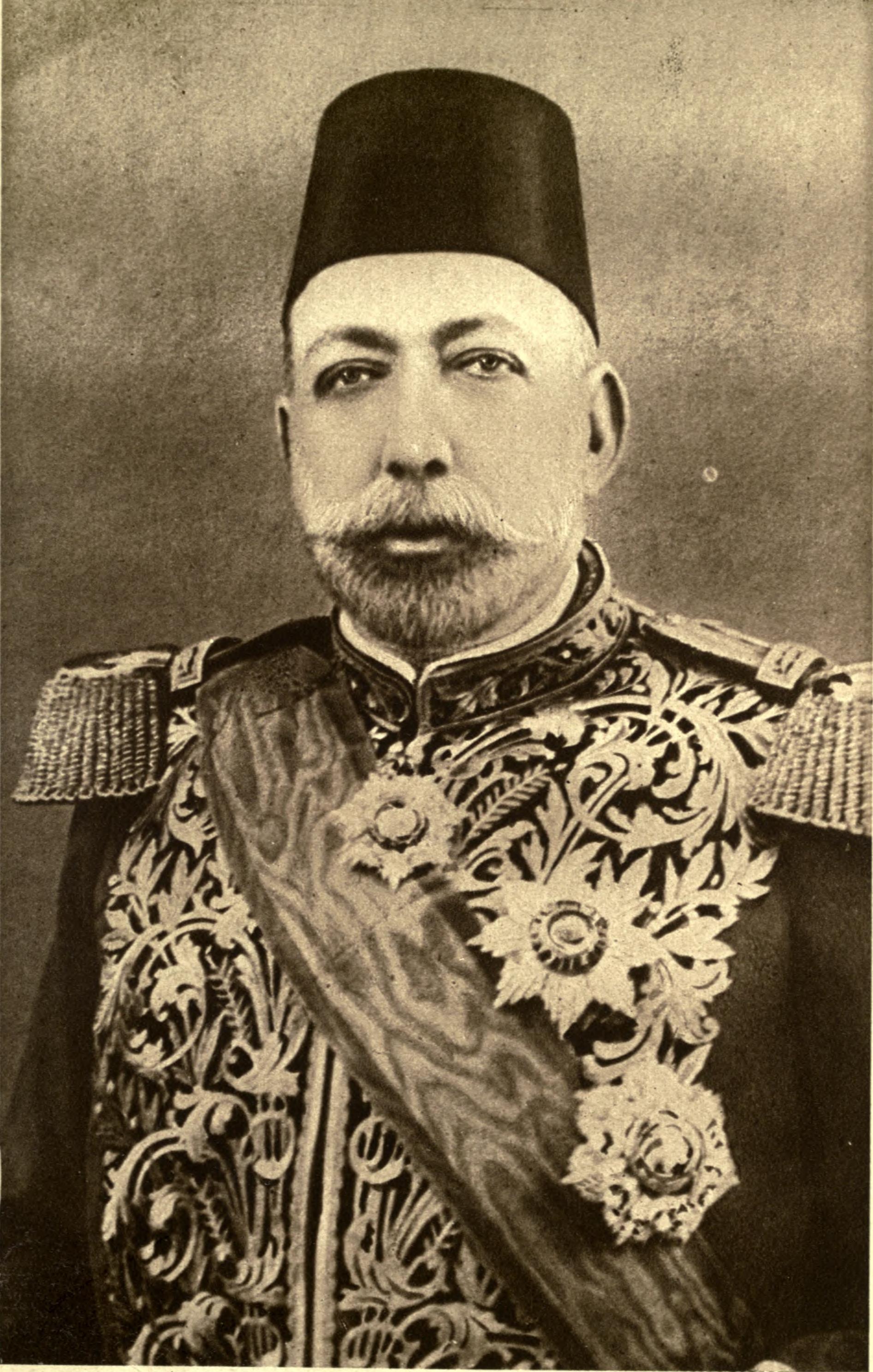 Photograph of Mehmed V, Sultan of the Ottoman Empire (1909–1918).